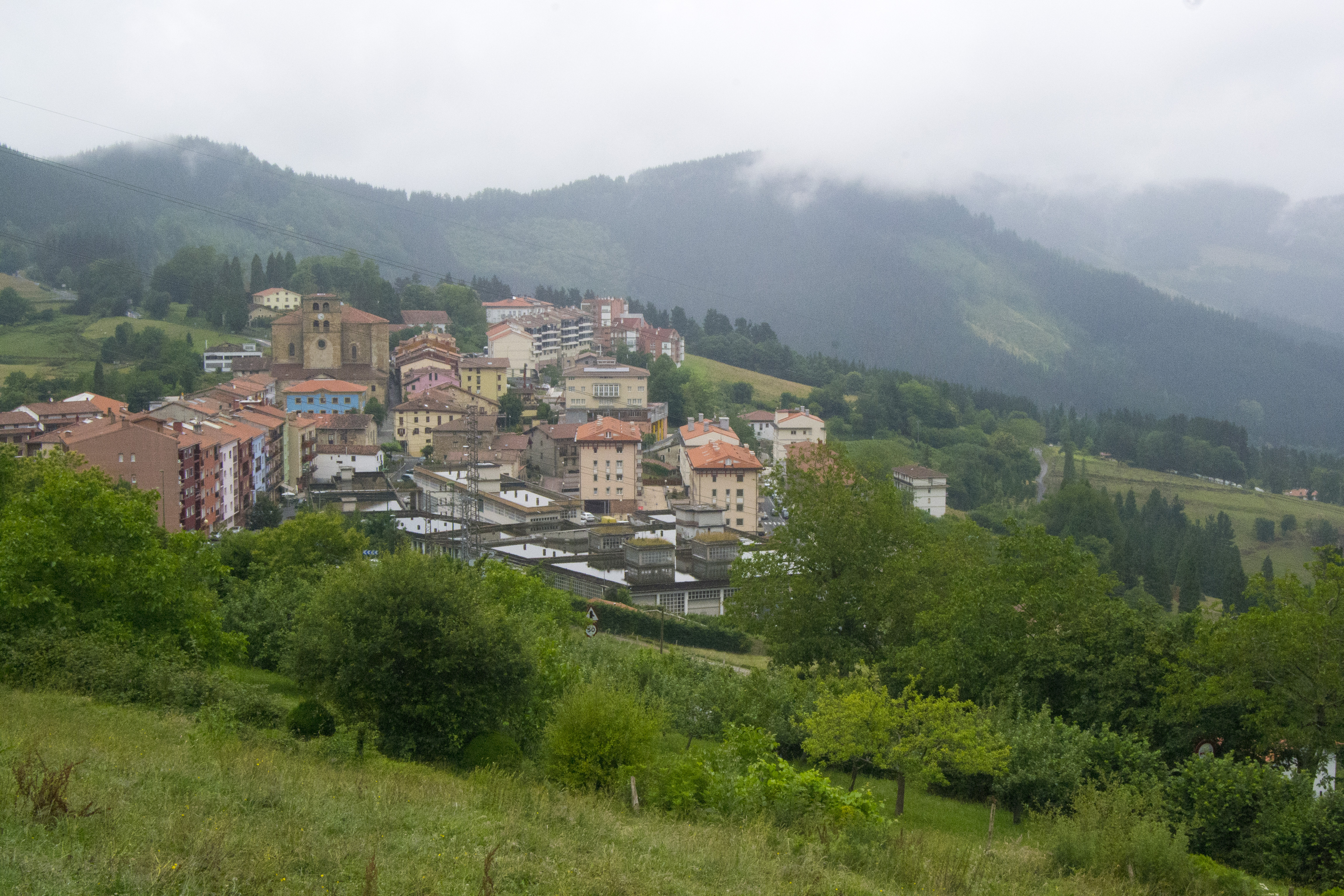 Elgeta. Gipuzkoa, Basque Country.